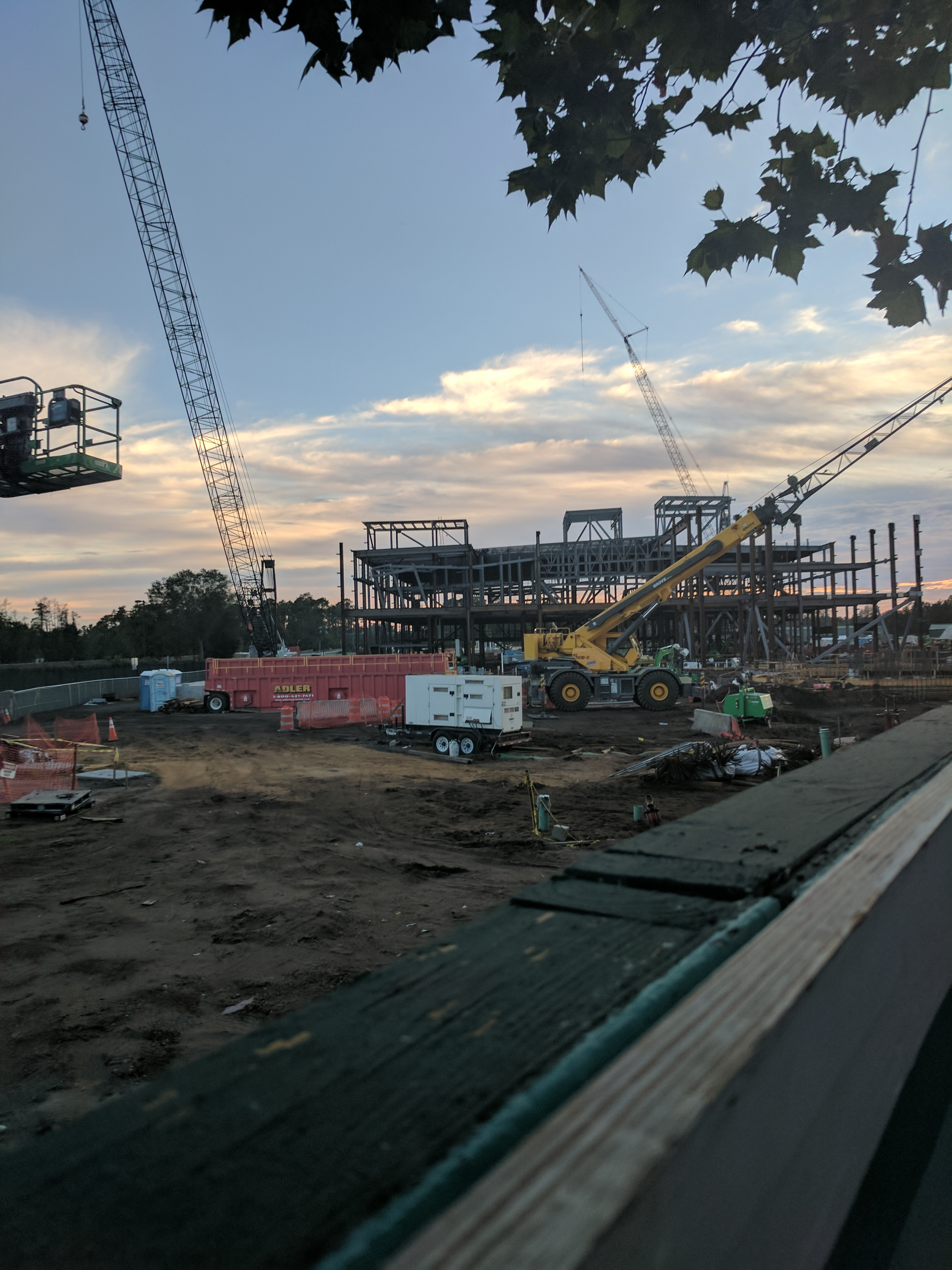 Star Wars: Galaxy's Edge Construction 8-13-2017